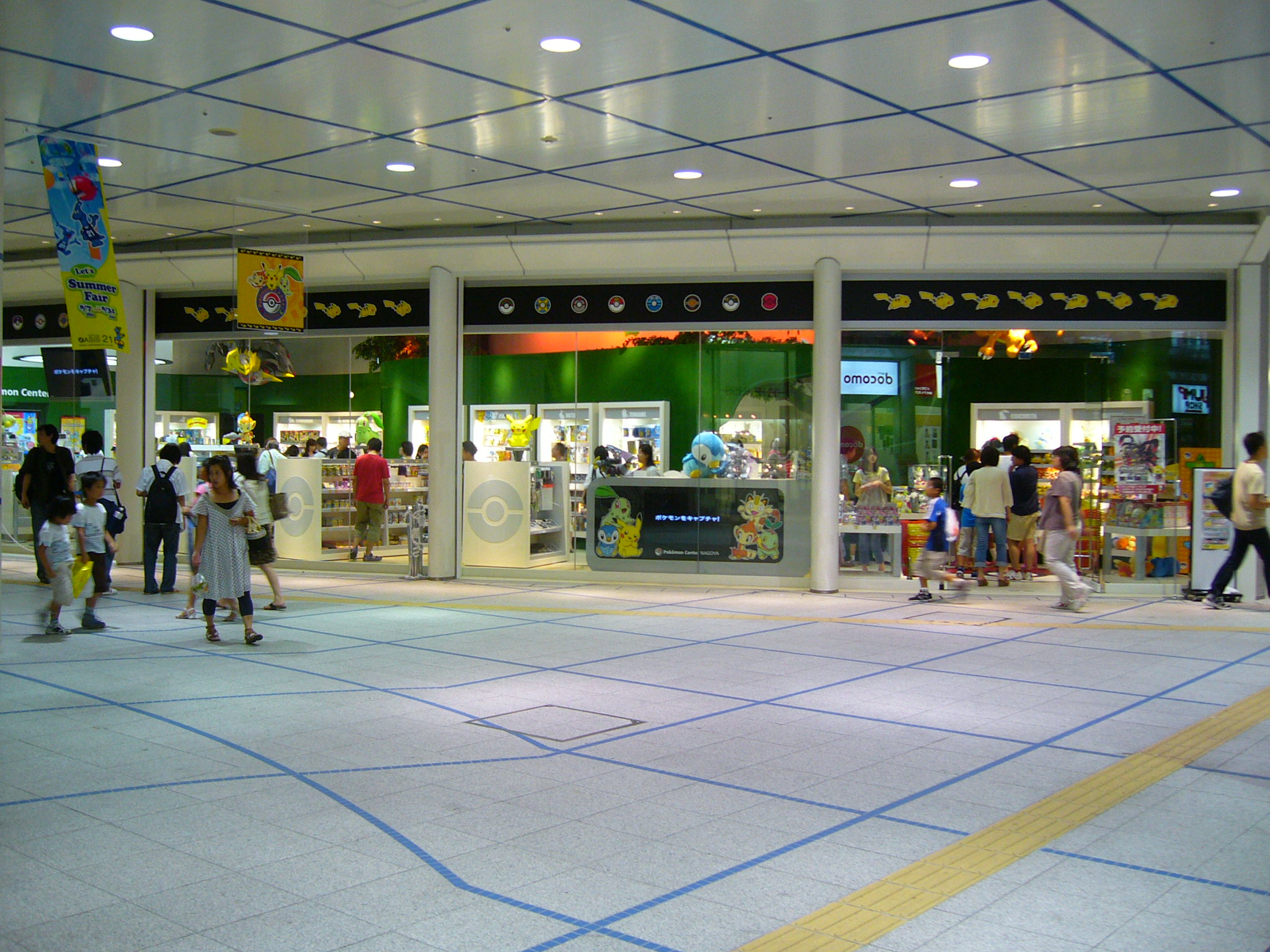 The Pokémon store ”Pokémon Center Nagoya” in Nagoya, Japan.